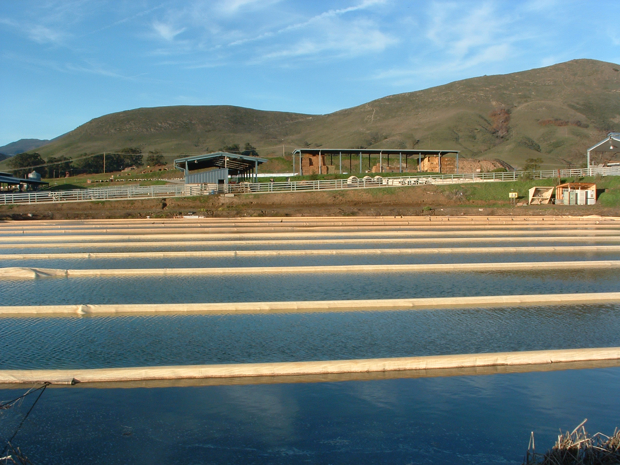 View of the anaerobic lagoon at the dairy at California Polytechnic State University, San Luis Obispo. The dairy can be seen in the background and the 25-kW power plant fired using the biogas is on the right.